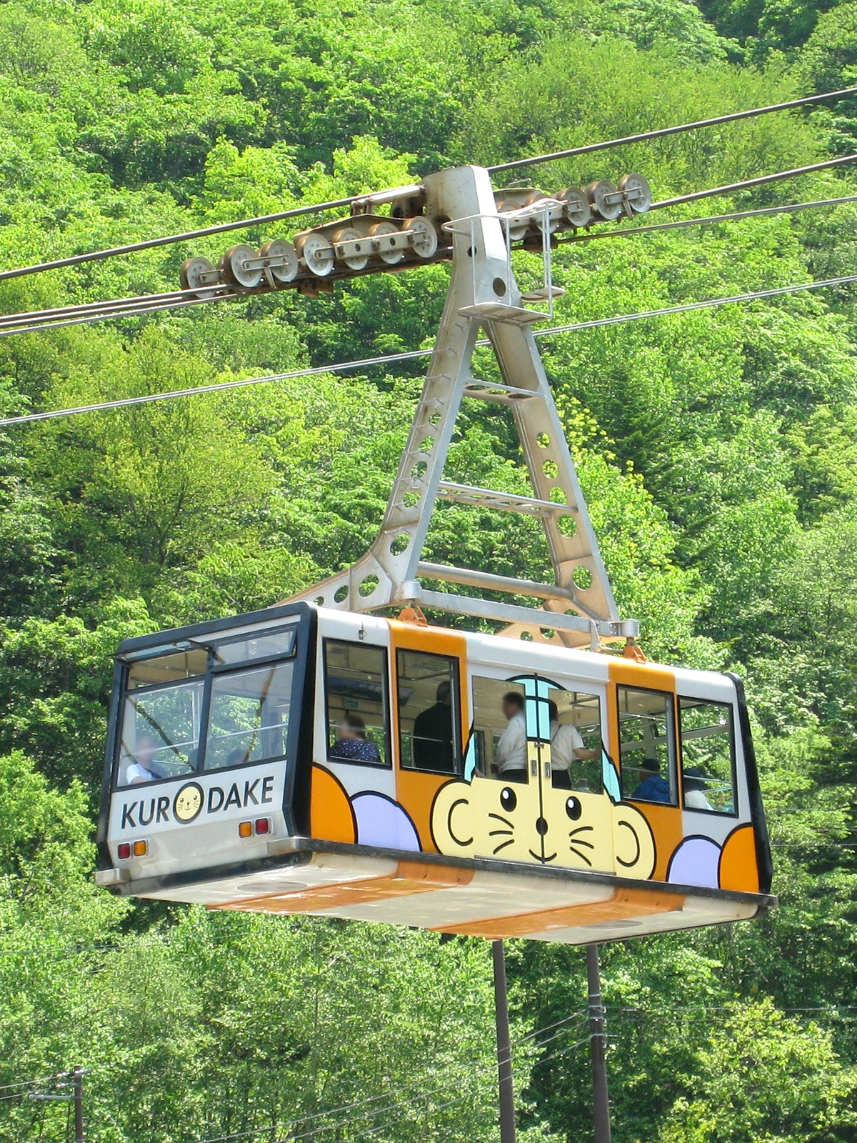 Gondola of Daisetsuzan Sōunkyō Kurodake Ropeway, This photo taken in June 18, 2008